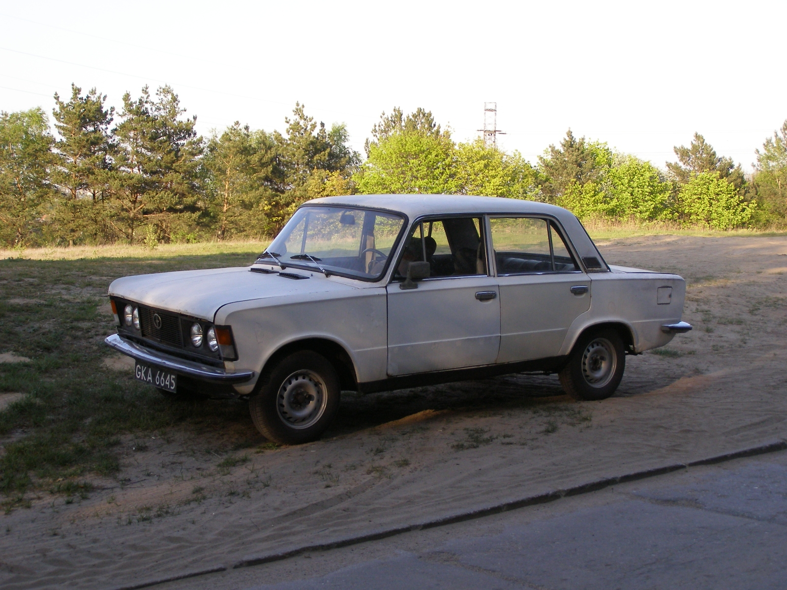 Gdańsk - Goplańska Str., Polski Fiat 125p